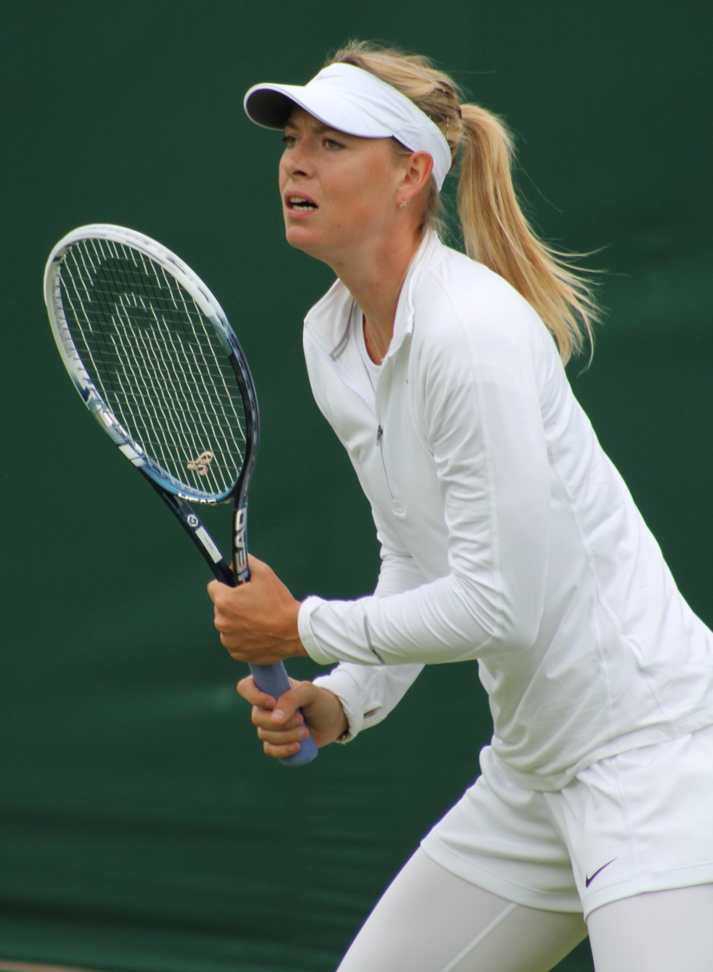 Sharapova Wimbledon 2013